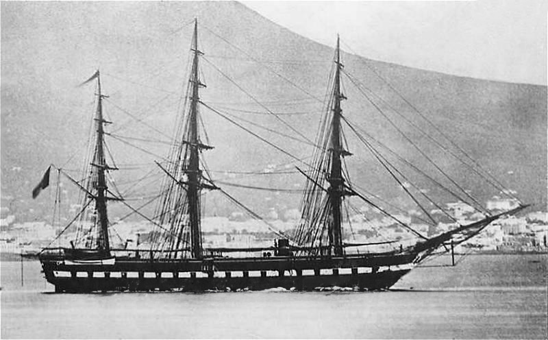 italian ship Garibaldi